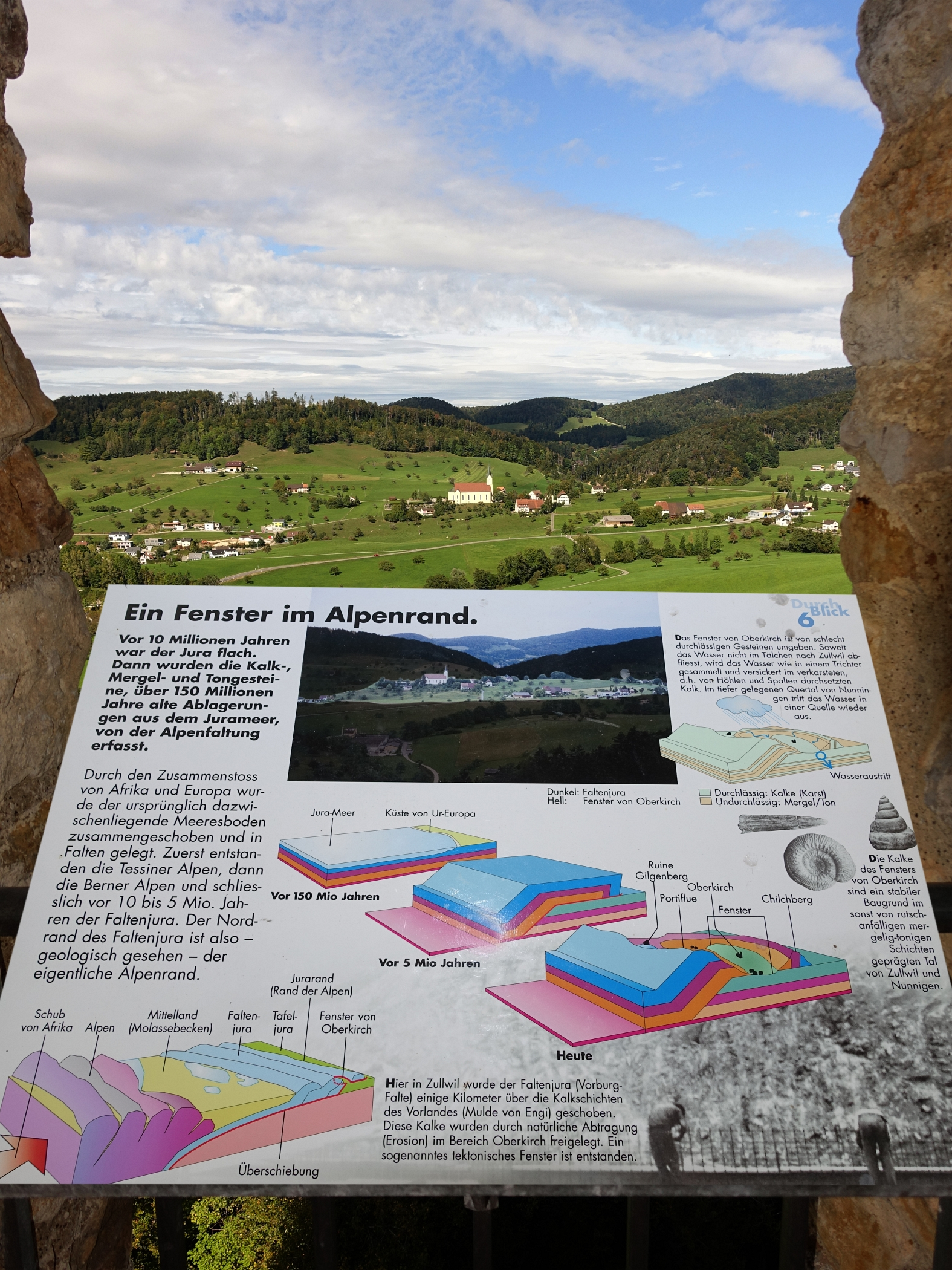 Burgruine Gilgenberg. 710 m.ü.M, in Zullwil, im Solothurner Faltenjura, Schweiz